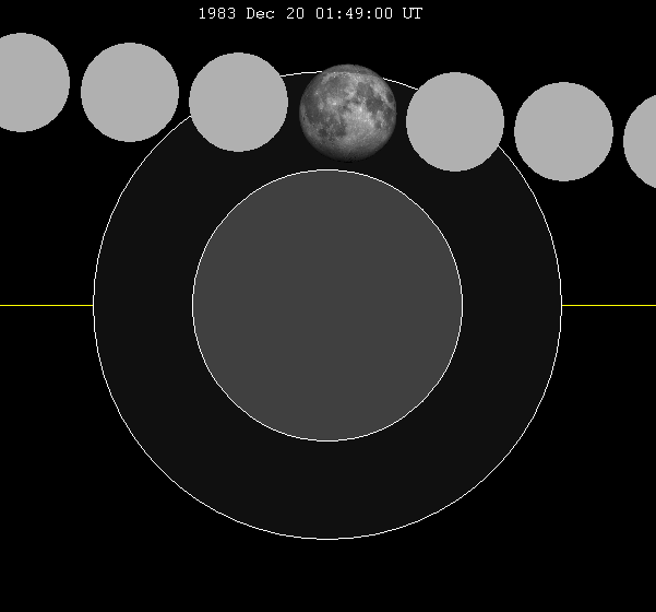 December 1983 lunar eclipse chart of moon's path through the earth's shadow. thumb